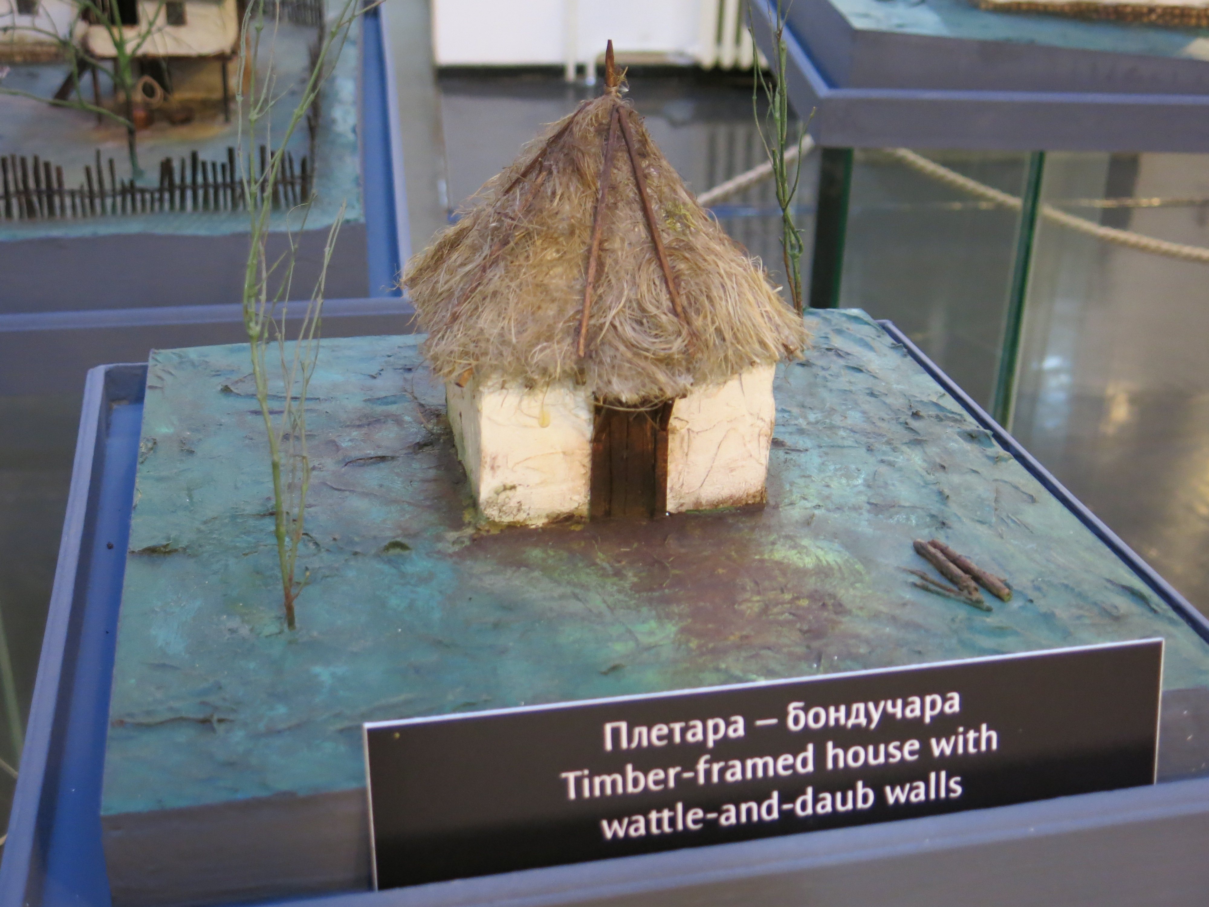 Ethnografic Museum in Belgrade, Serbia